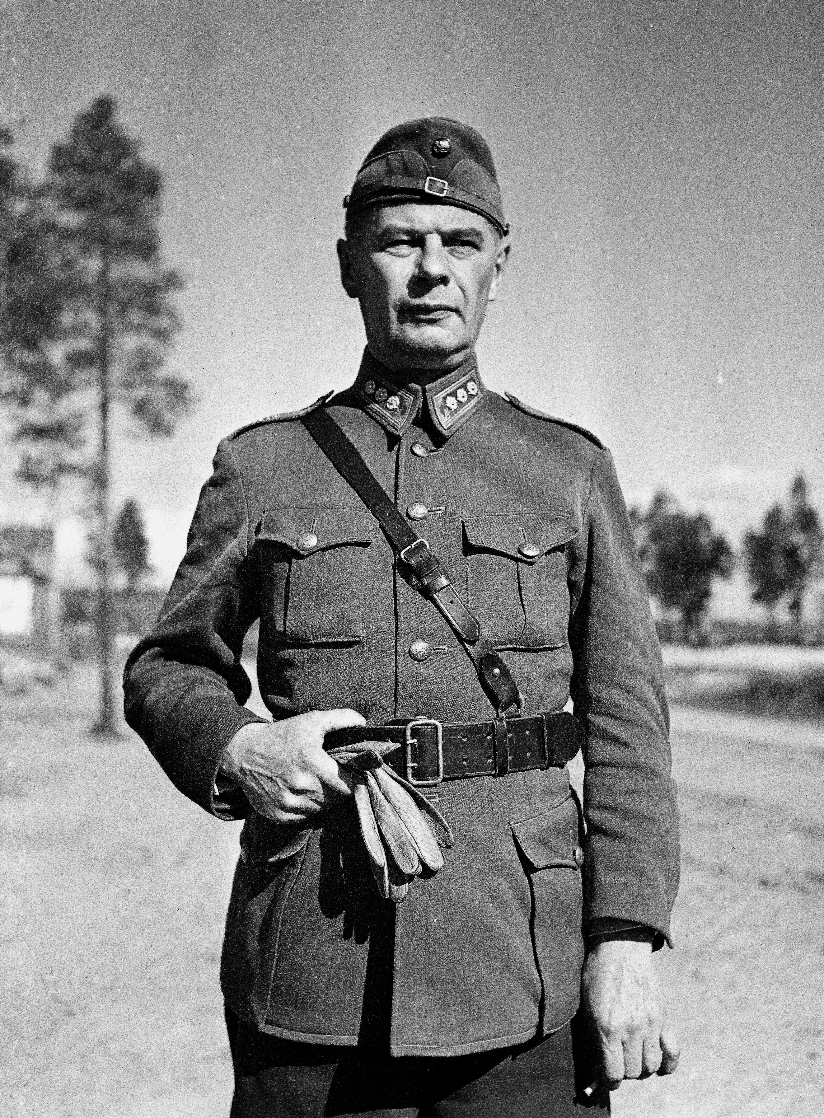 Photograph of the Finnish soldier Colonel Veikko Räsänen (1893–1954) in uniform. Photographed in Karhumäki